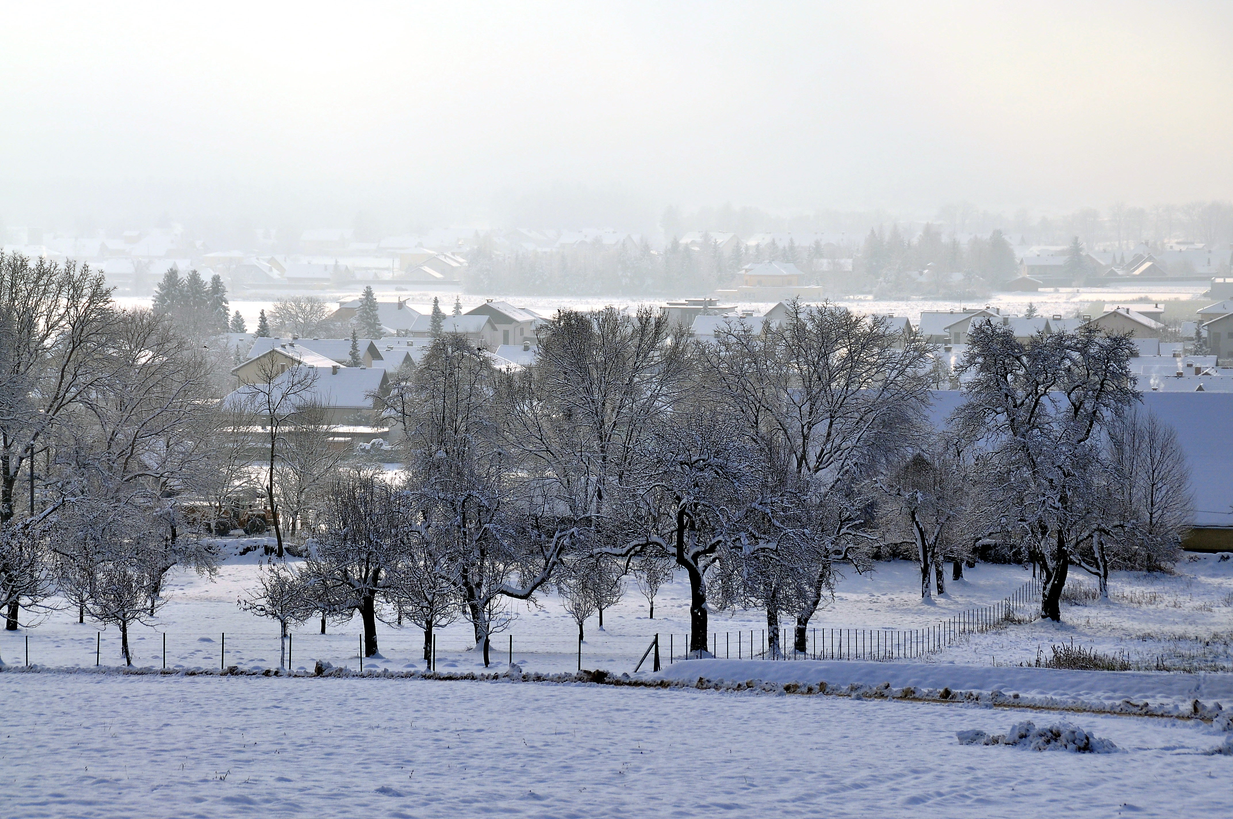 Rural locality Hoertendorf in the 15th district "Hoertendorf" of Carinthia`s capital Klagenfurt, Carinthia, Austria